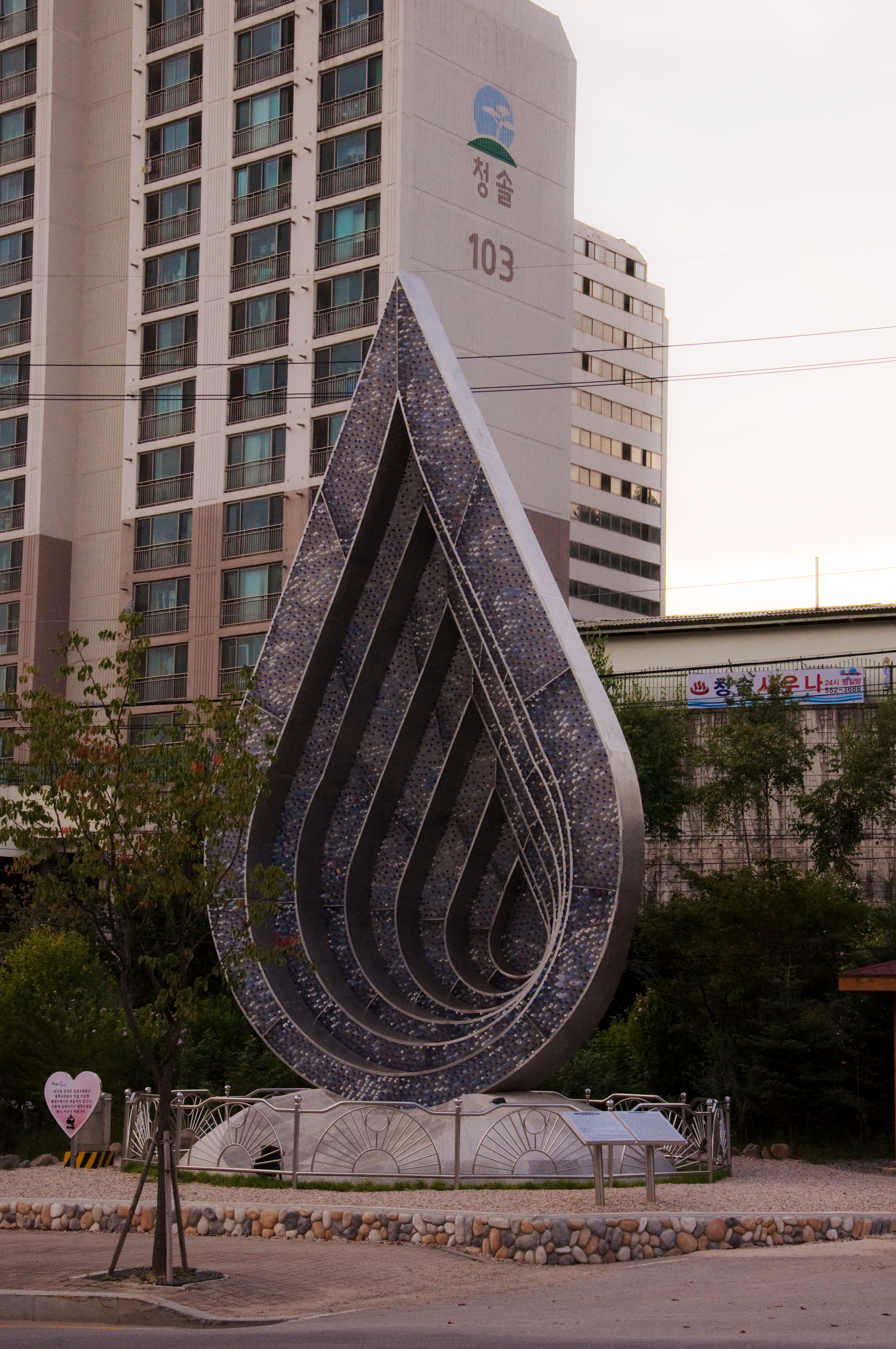 There was a serious drought in Taebaek last year. From what I hear from the other foreign teachers, this monument commemorates it. It's made of water bottles if you look close.